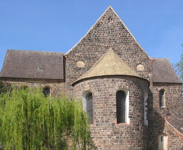 Stonechurch in Zahna, built probably before the year 1000. First german church in the landscape Fläming, which was settled by slavic tribes from ca. 7th century until this time. The town Zahna, district Wittenberg, state Saxony-Anhalt, Germany, is situated in the Nature park Fläming.